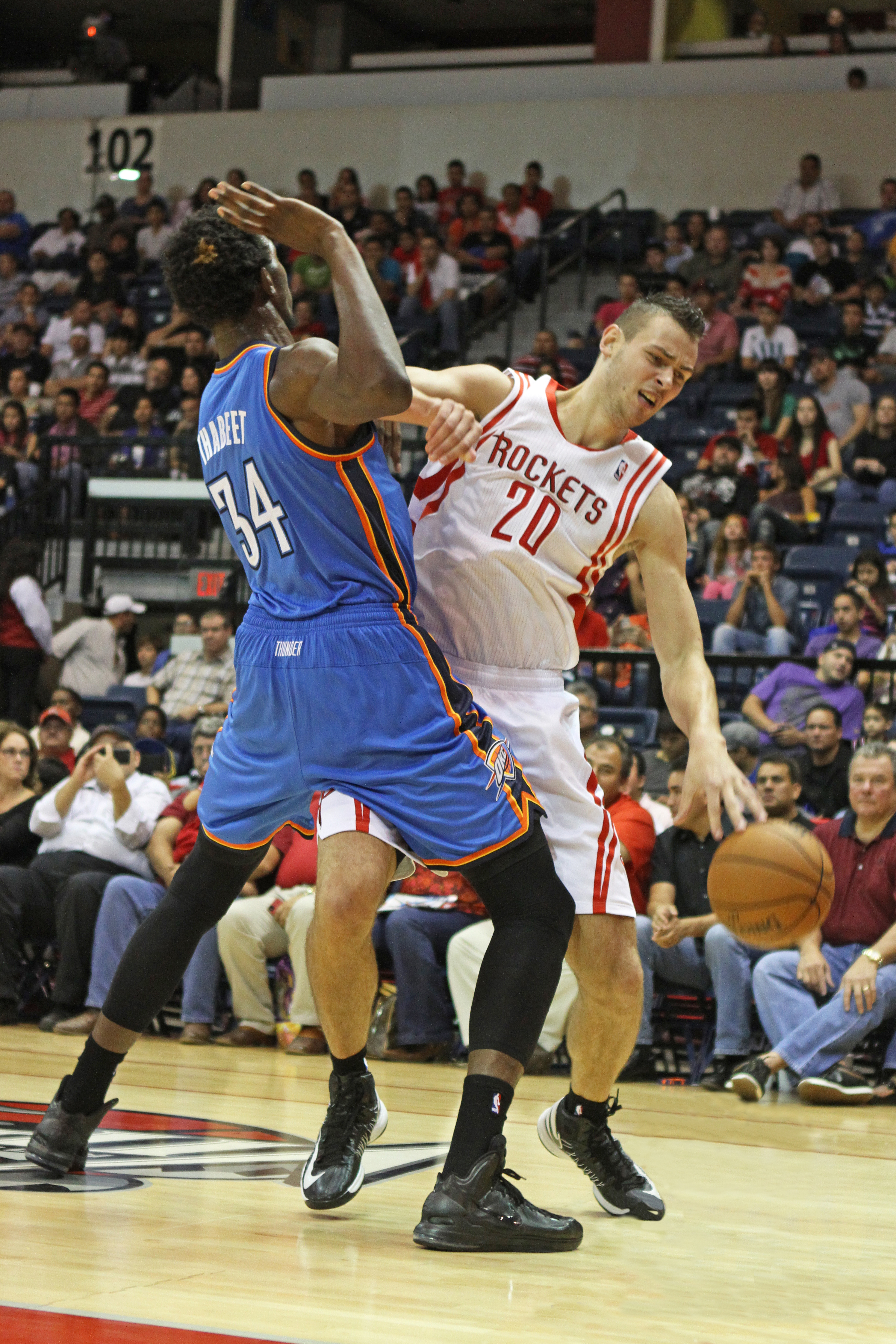 Donatas Matiejunas and Hasheem Thabeet